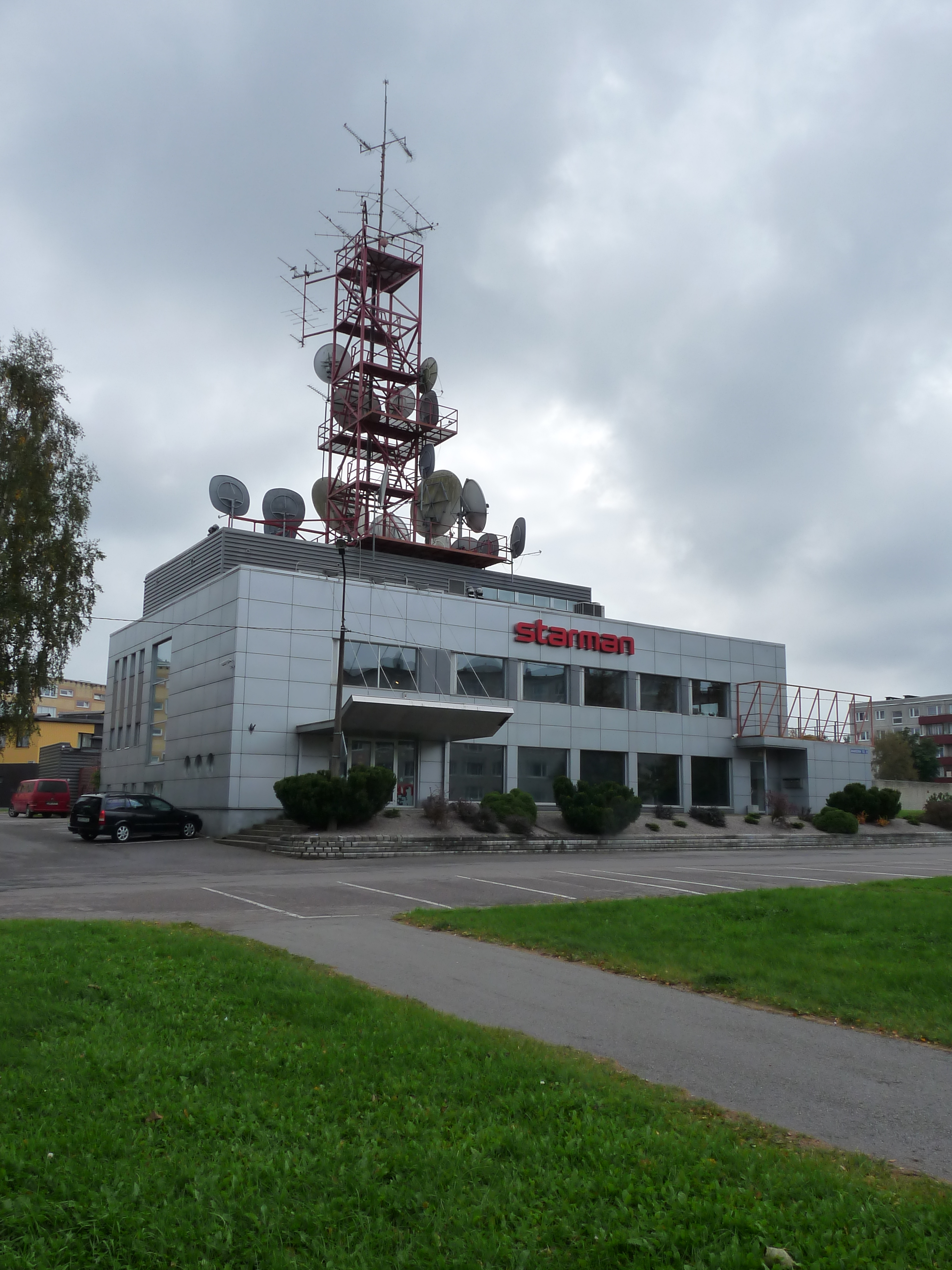 Starman headquarters in Tallinn, Estonia